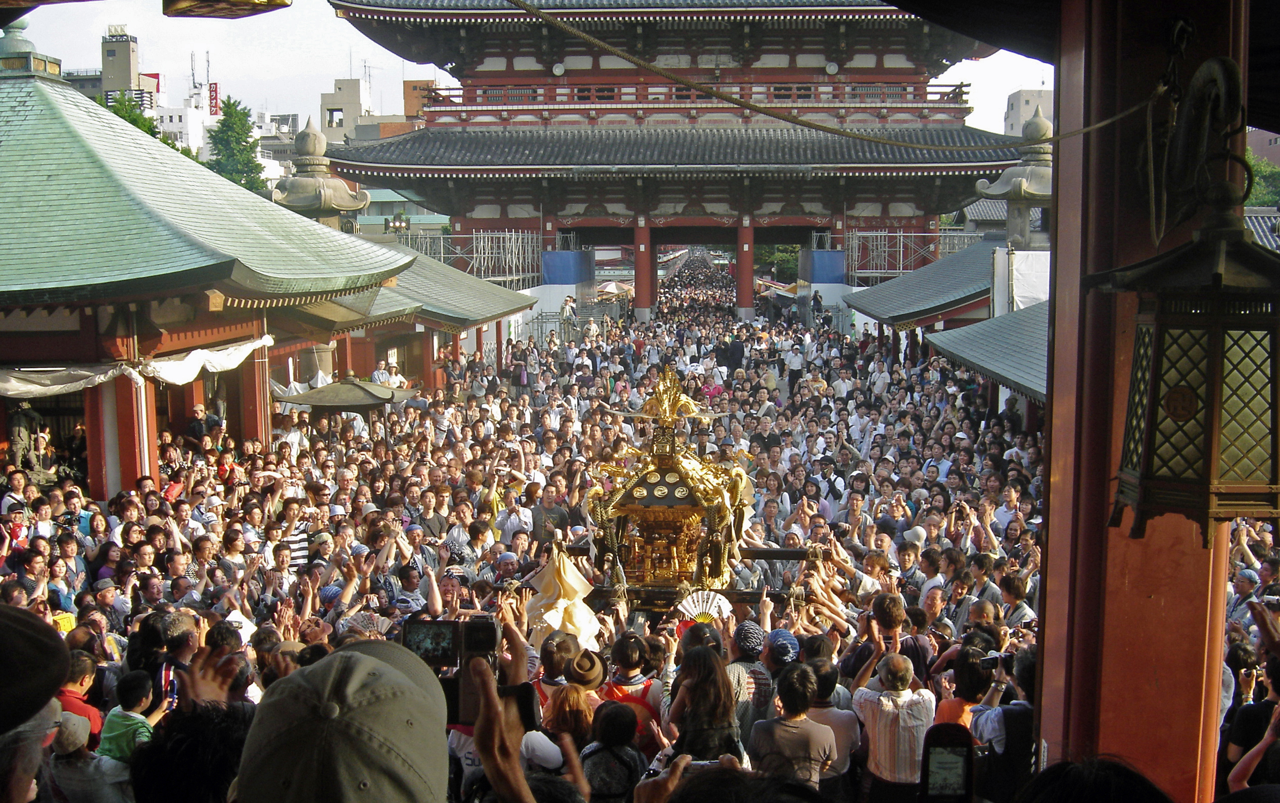 A view of the Hozomon gate and the Nakamise beyond it as well as one of the main mikoshi from the top step of Sensō-ji during Sanja Matsuri.